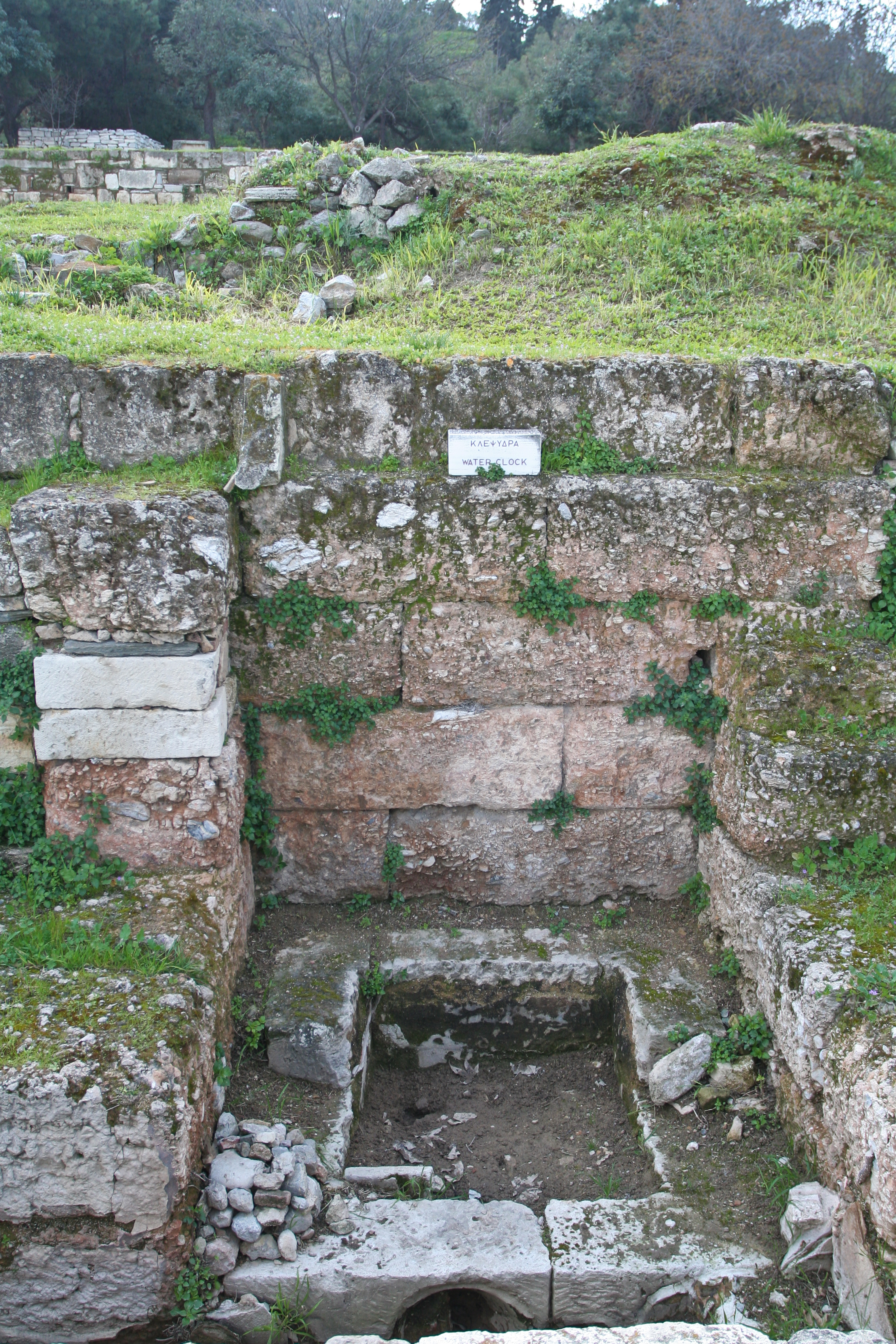 The water clock kept time for speeches, with water emptying at a controlled speed from one bowl into another. Senate speeches were six minutes and it became an art form to deliver an effective message in that time period.